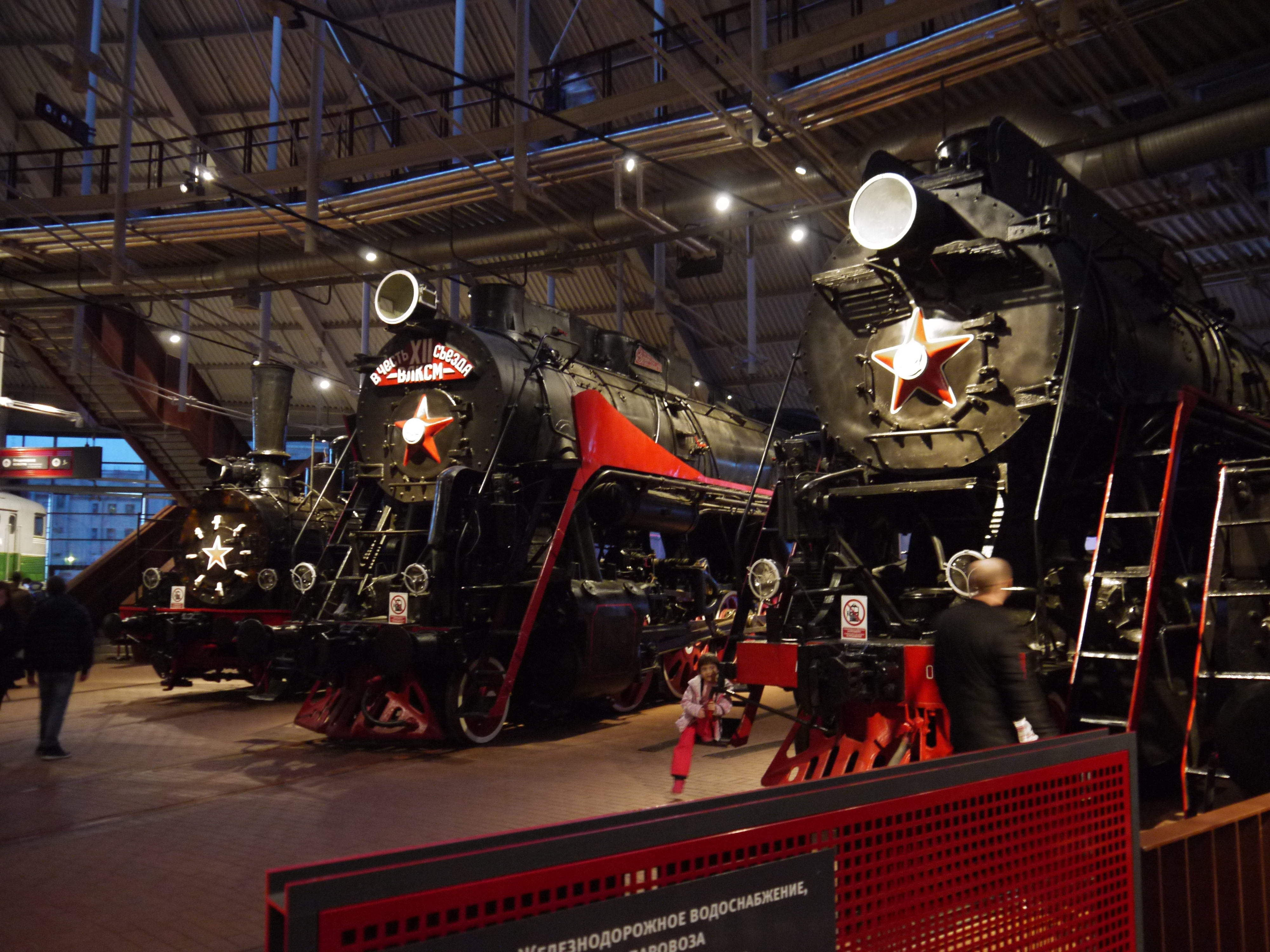 Russian Railway Museum, adjacent Baltiysky Railway station, Saint Petersburg Left Ov6640 Nineteenth Century Freight locomotive. During 2017 she was restored to working order. 8000 of these were built up until the Russian Revolution This one was built at the Putilov works in St. Petersburg in 1902. During World War II it was used as part of an armoured train. Centre L2298 - 4199 examples built 1945-55. This example was built in honour of the 12th Congress of Young Communist organisation in 1954. Right LV18-002 Weight in working order: without tender 12 tons including tender 130 tonnes Deaign speed 80 km / h. maximum power at the rim of the wheel 2600 PS Built in the Voroshilovgradskim Parovozostroitelnym factory. The October Revolution of 1953. It served at Moskovsko-Ryazanskoy and Northern Iron roads until 1982. It then went to Ispolzovalsya as boiler enterprise "Komiavtostroy."